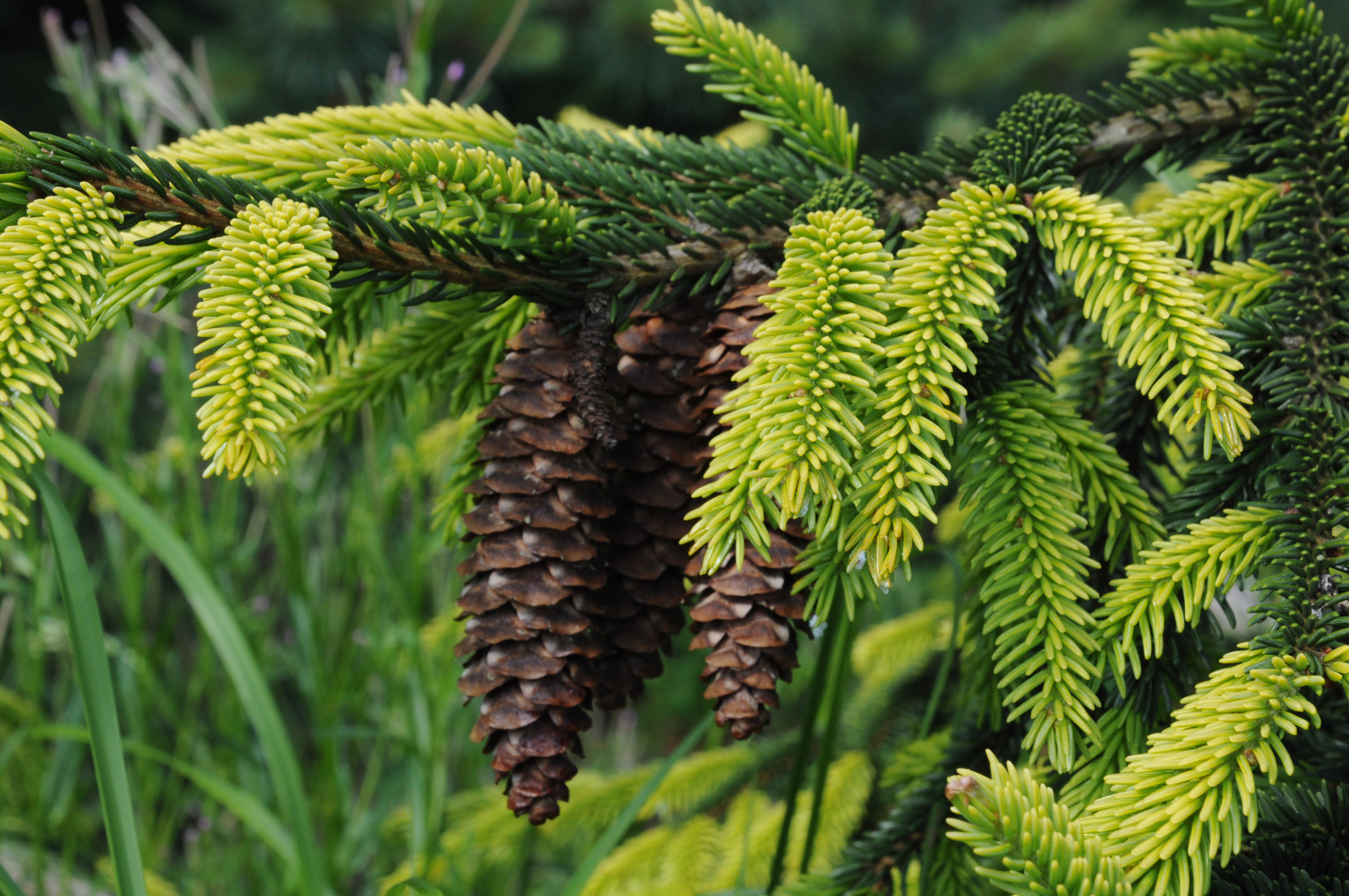 Picea orientalis 'Aureospicata'